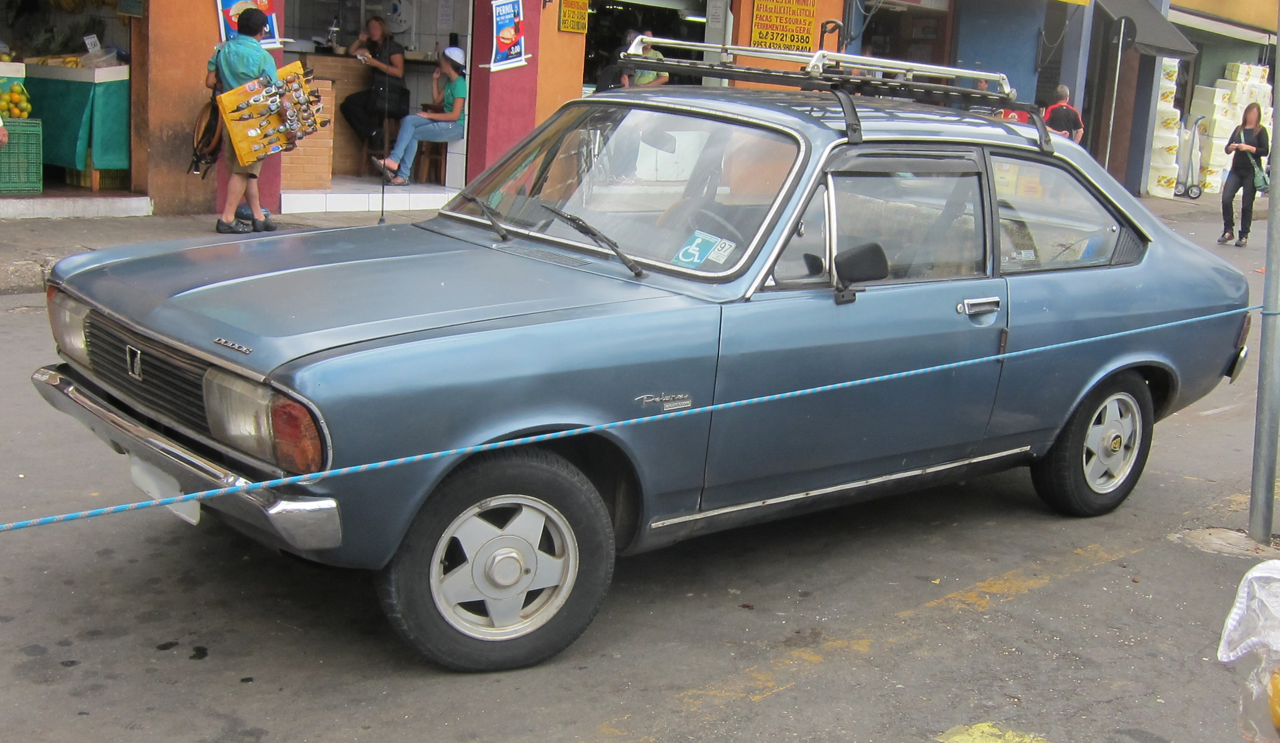 Dodge Polara two-door in Poços de Caldas, Brazil